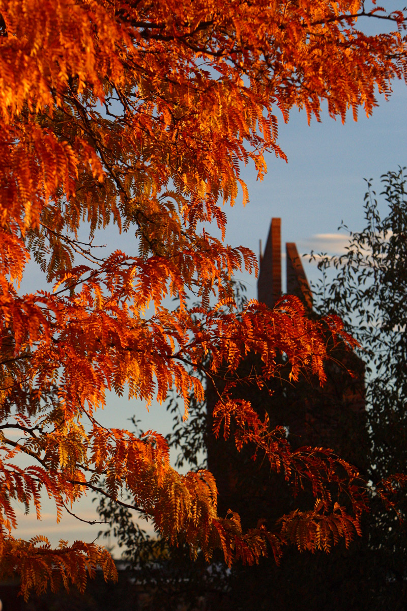 Carillon at Northwest College with fall foliage in front